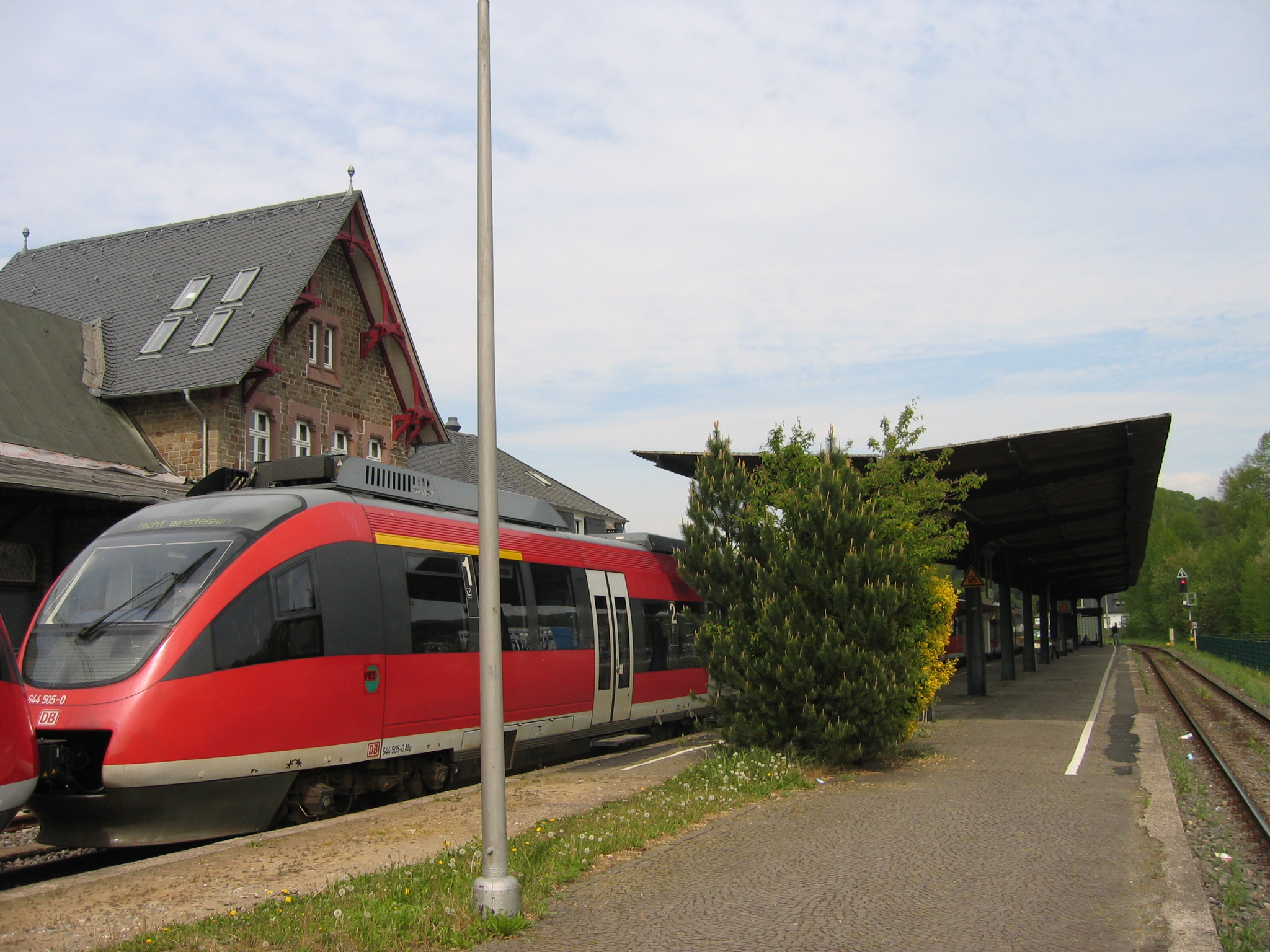 Bahnhof Overath